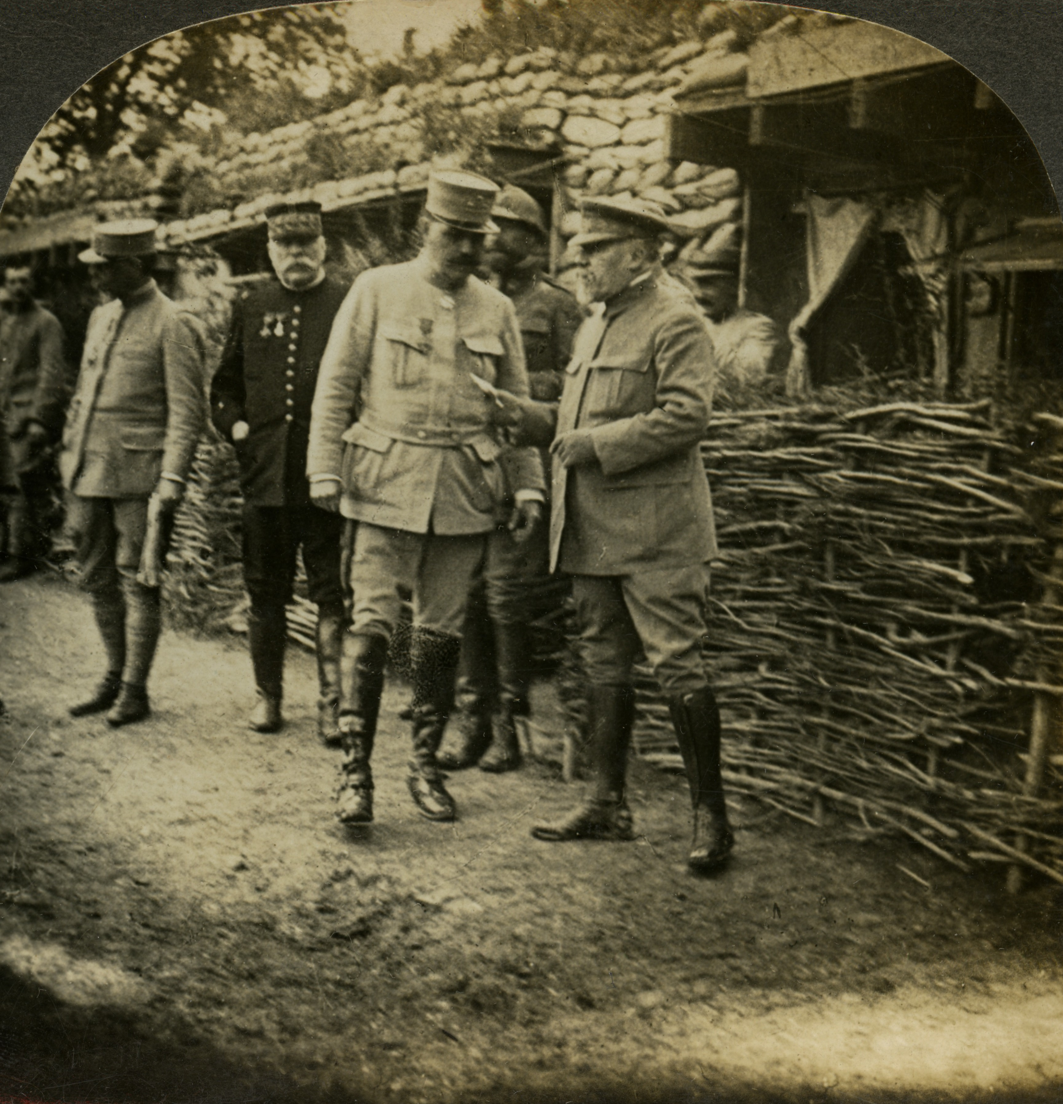 Horizontal, sepia stereocard showing French President Raymond Poincare and Marshall Joseph Joffre meeting with uniformed officers. Keystone Stereograph number V18826. The title reads: "President Pincare and Marshall Joffre Visiting Officers' Quarters on the Somme Front." Title: "President Poincare and Marshall Joffre on the Somme Front."